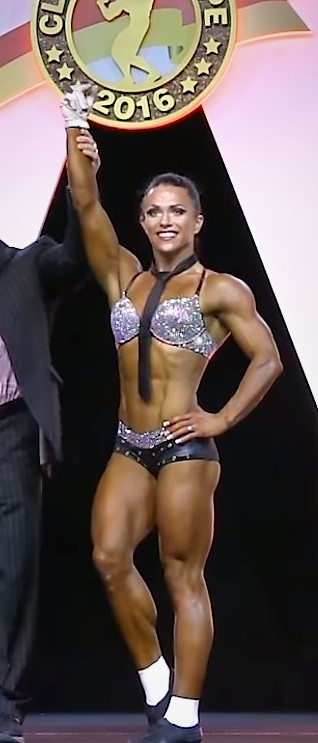 2016 Arnold PRO Classic Europe Fitness OKSANA GRISHINA Tento videoklip bol natočený pre portál EastLabs.sk, v spolupráci s internetovým obchodom ObchodRonnie.sk